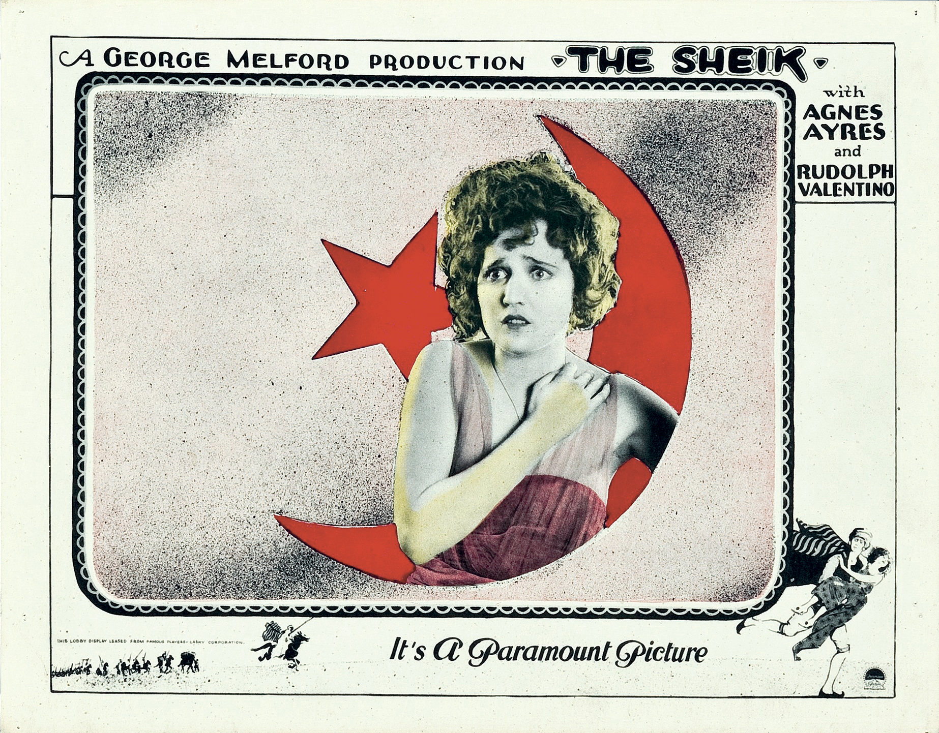 Lobby card for the American silent film The Sheik (1921) with Agnes Ayres.